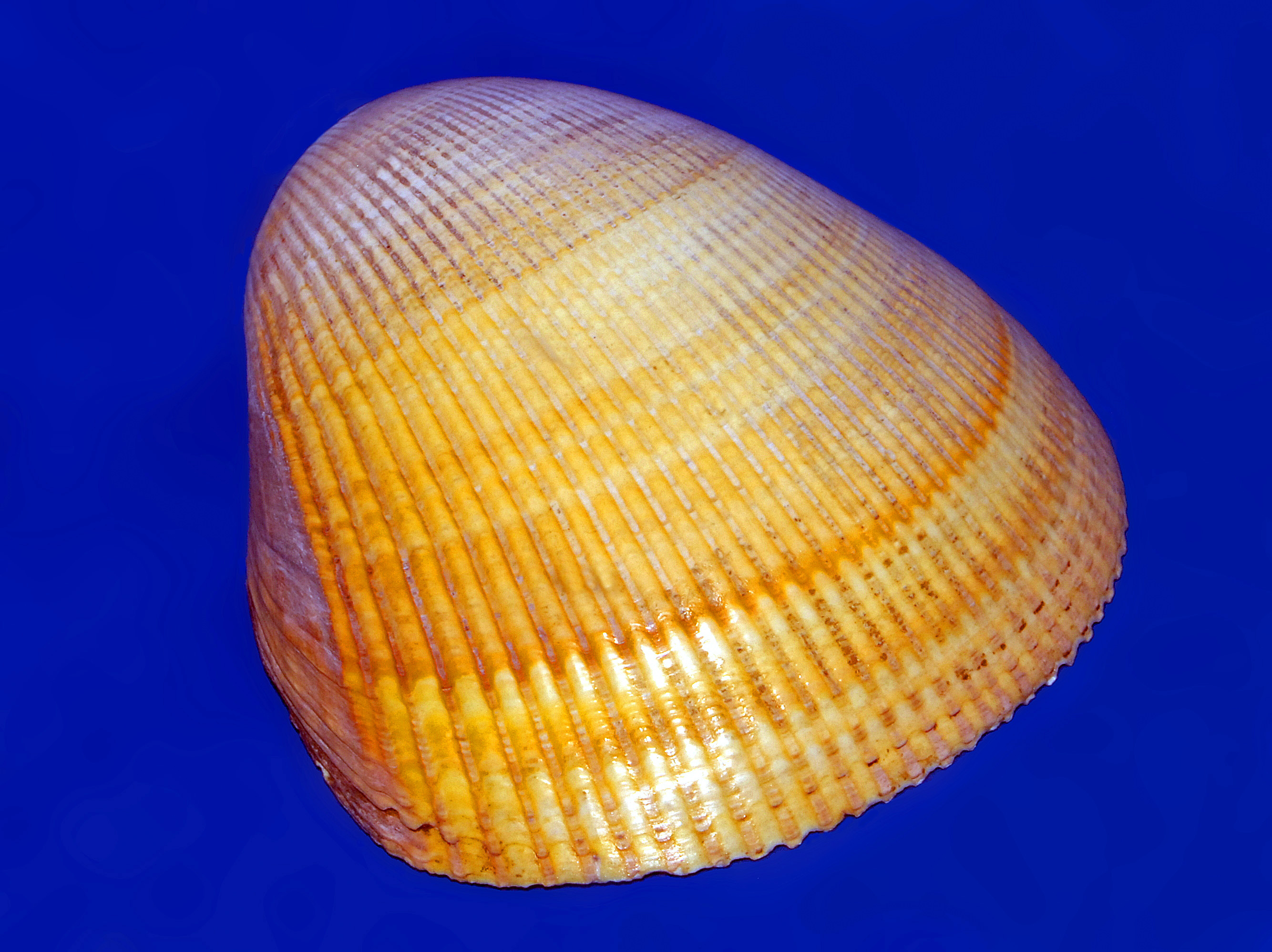 Shell of Laevicardium elatum from West Mexico at the Museo Civico di Storia Naturale di Milano. This shells was misidentified as Acrosterigma magnum from Florida and the Caribbean Sea